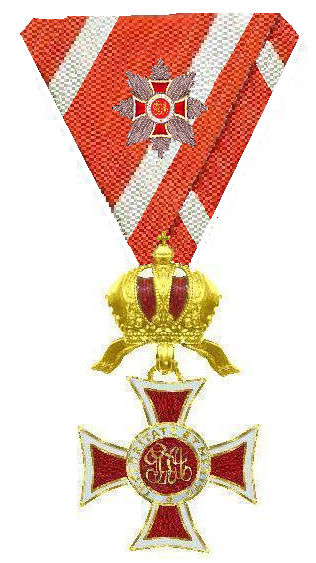 Order of Leopold IInd. Class